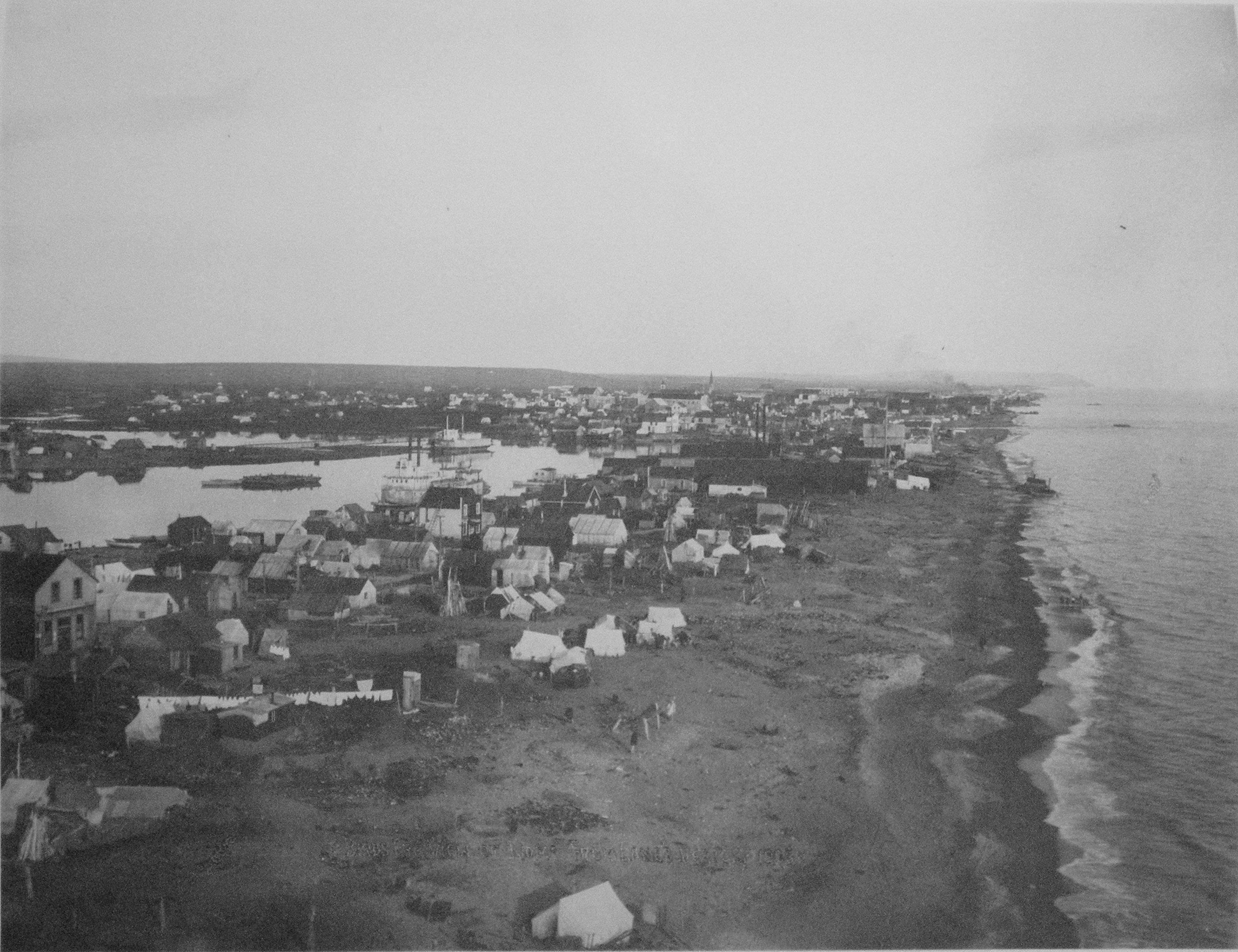 "Bird's-eye View of Nome Alaska"